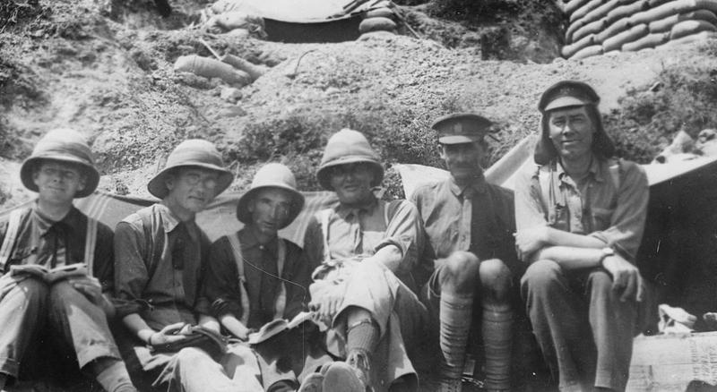 Gallipoli, 1915 A group of Chaplains on Anzac in September 1915. From left to right: Chaplains Merrington, A.I.F.; King, N.Z.E.F.; Dale, Royal Irish Rifles; McMenamin, N.Z.E.F.; O'Connor and Crozier, both of the Royal Irish Rifles.